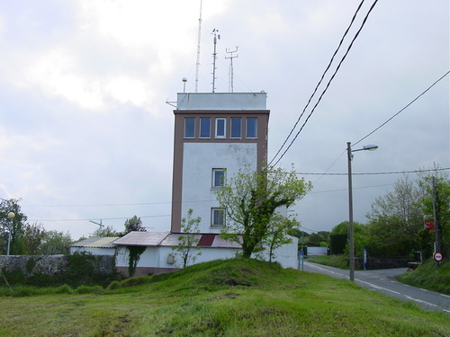 Meteorology obervatory of Igeldo.